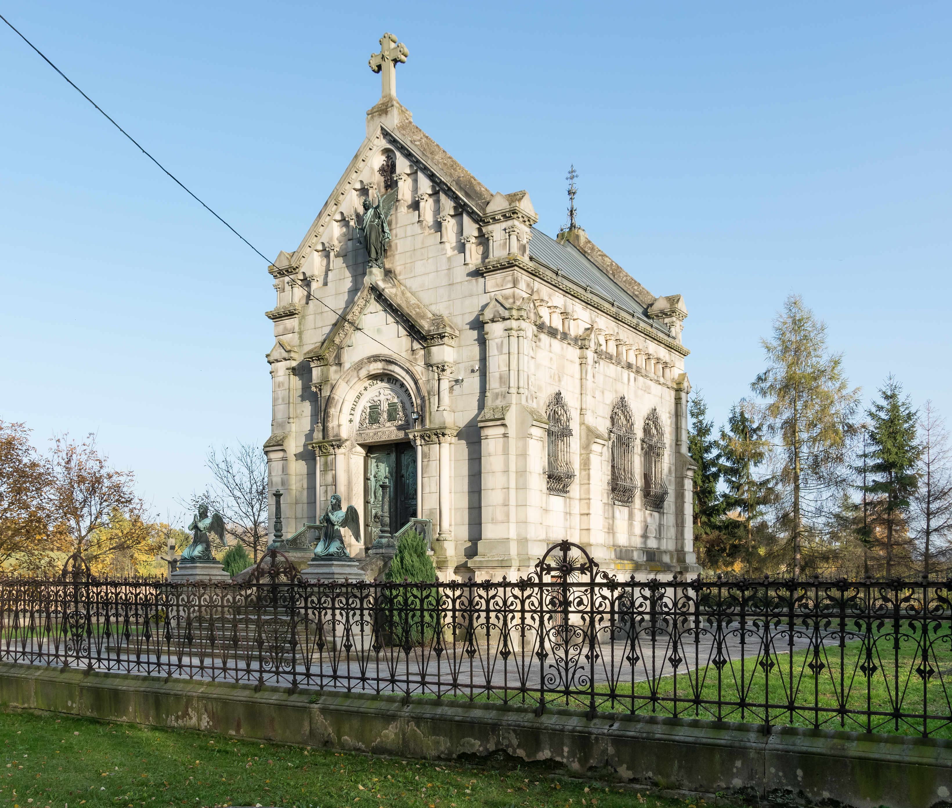 Mausoleum of von Magnis family in Ołdrzychowice Kłodzkie